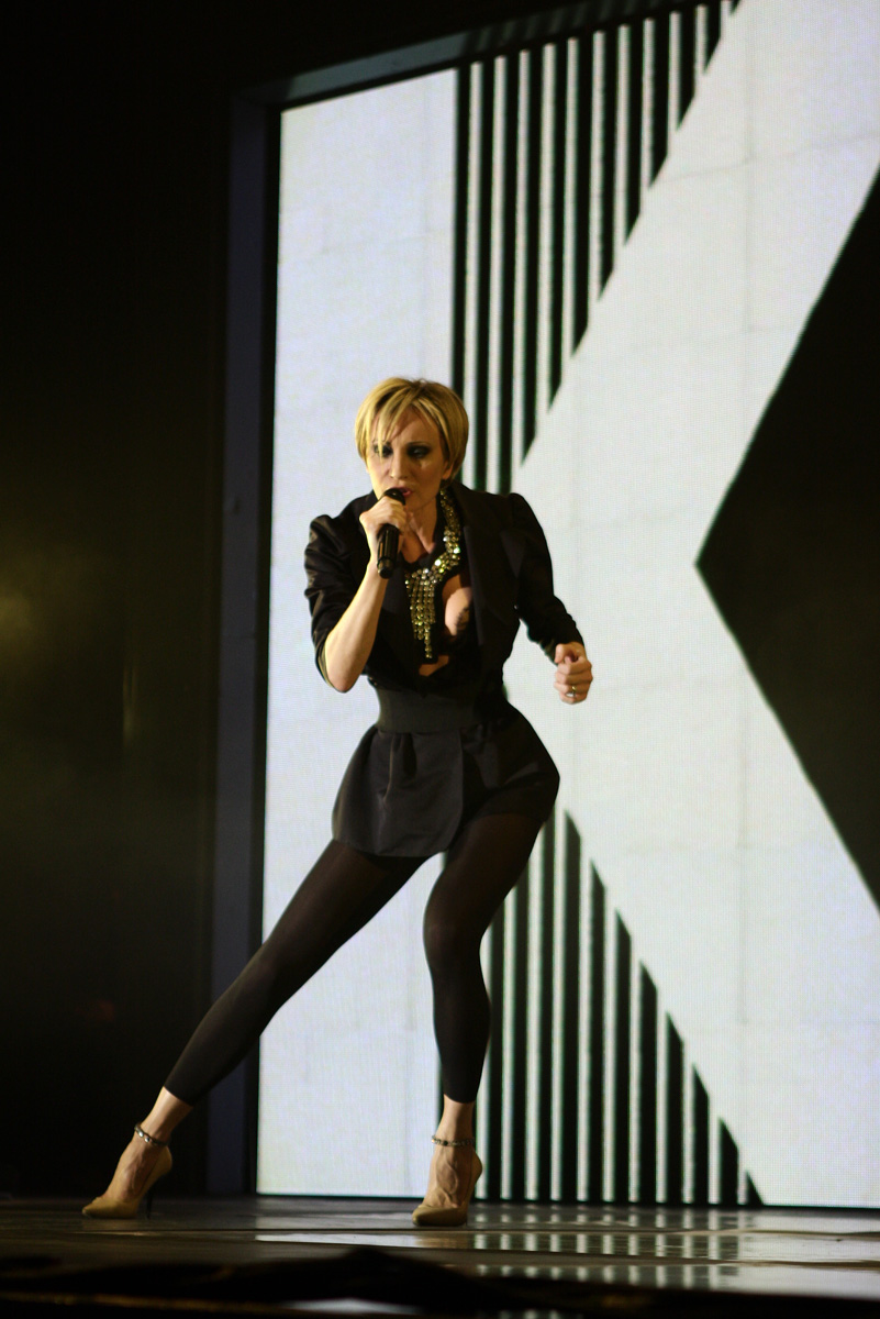 Patricia Kaas, Vilnius, Lithuania. 2009-04-24